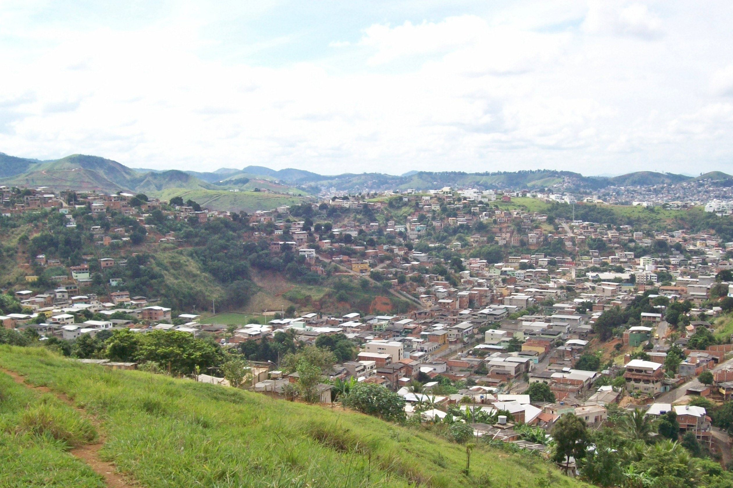 Partial view of the Esperança neighborhood seen from of the Nova Esperança, in Ipatinga, Minas Gerais, Brazil.